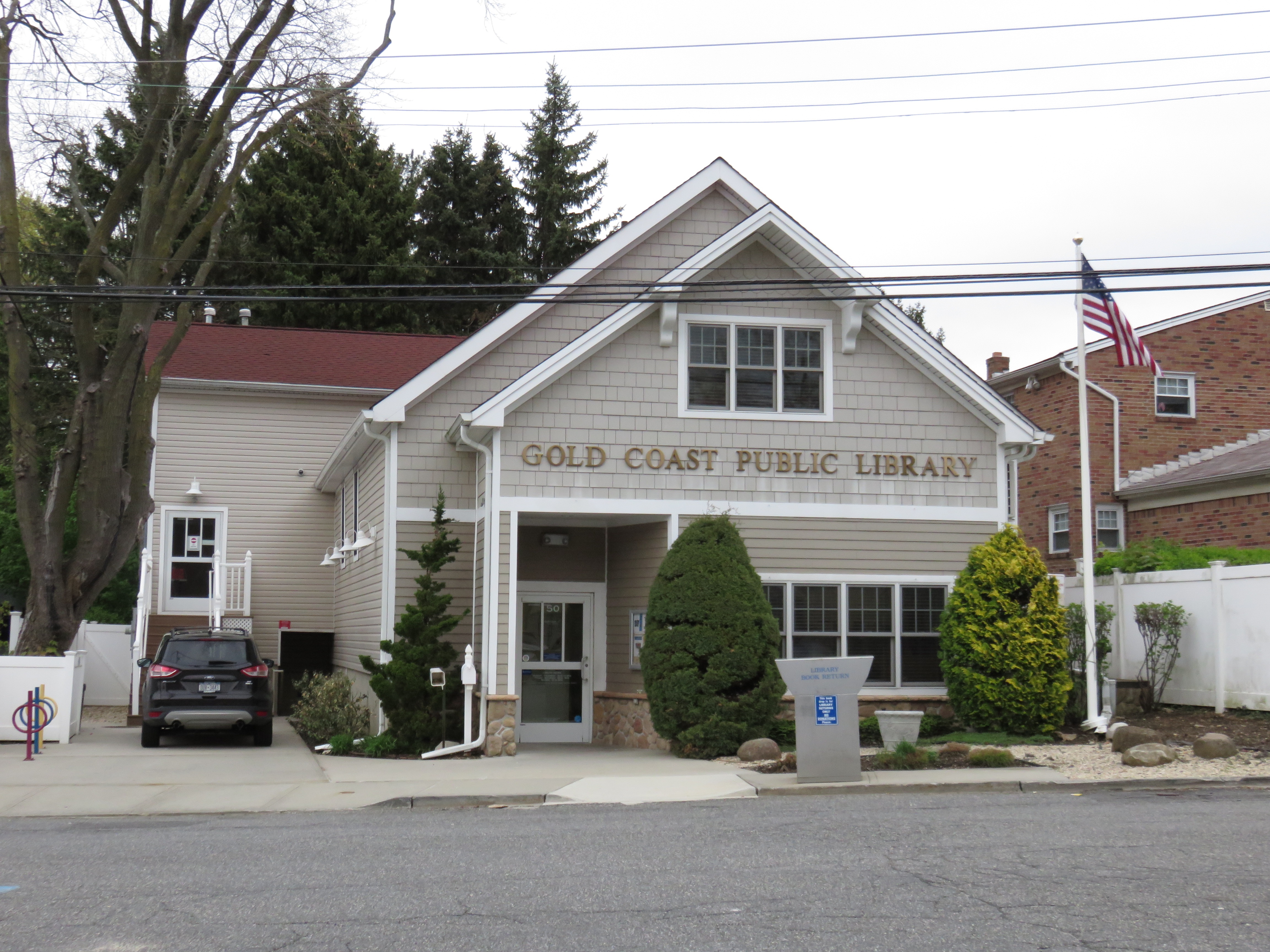 Gold Coast Public Library in Glen Head, New York in 2016